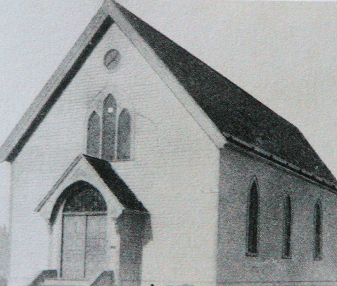 Mount Zion Temple, founded in 1856, shown here in 1875. Located at Tenth Street East and Minnesota Street, Saint Paul, Minnesota.